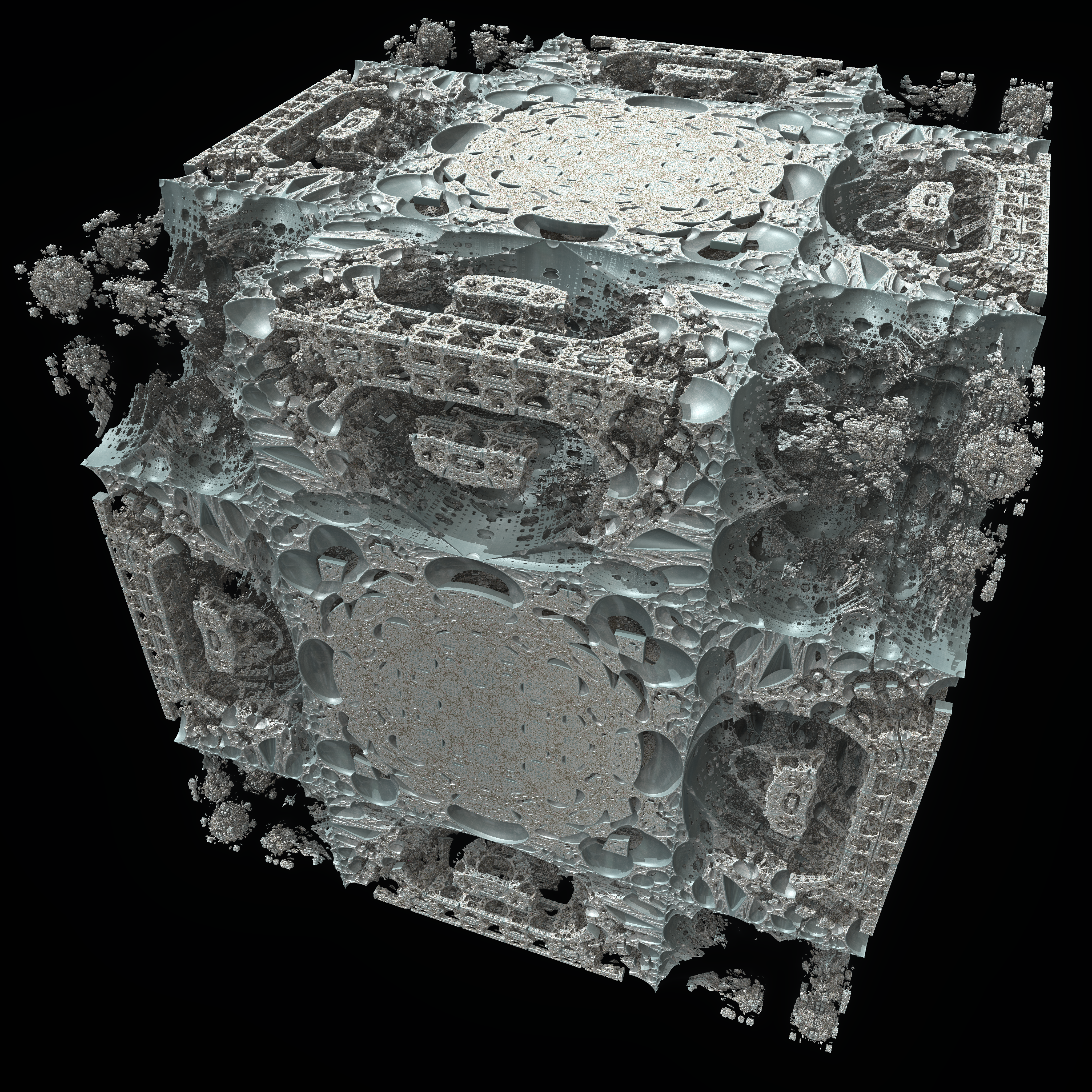 High-resolution rendering of a Mandelbox fractal, with scale factor -2.